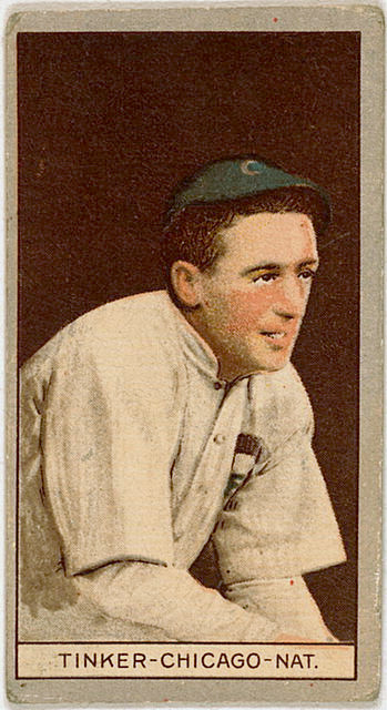 Joe Tinker baseball card, American Tobacco Company, 1912